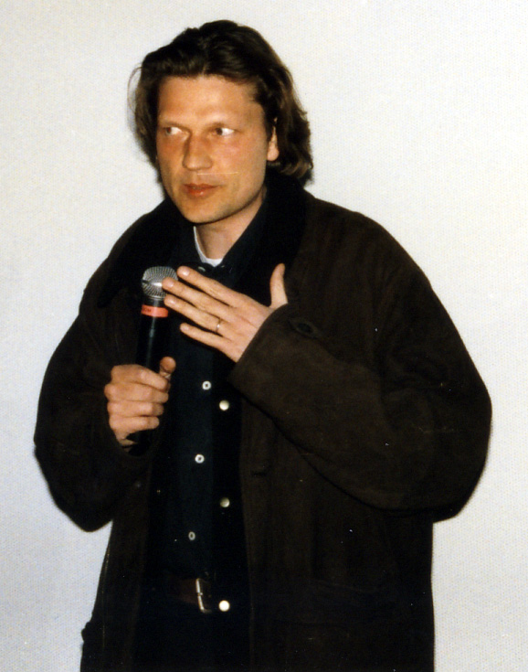 German filmmaker, director and producer Roland Suso Richter. Photo was taken at the Cinedom Movie Theater in Cologne, Germany. Mr. Richter was at the premiere of his Movie "14 Tage lebenslaenglich"